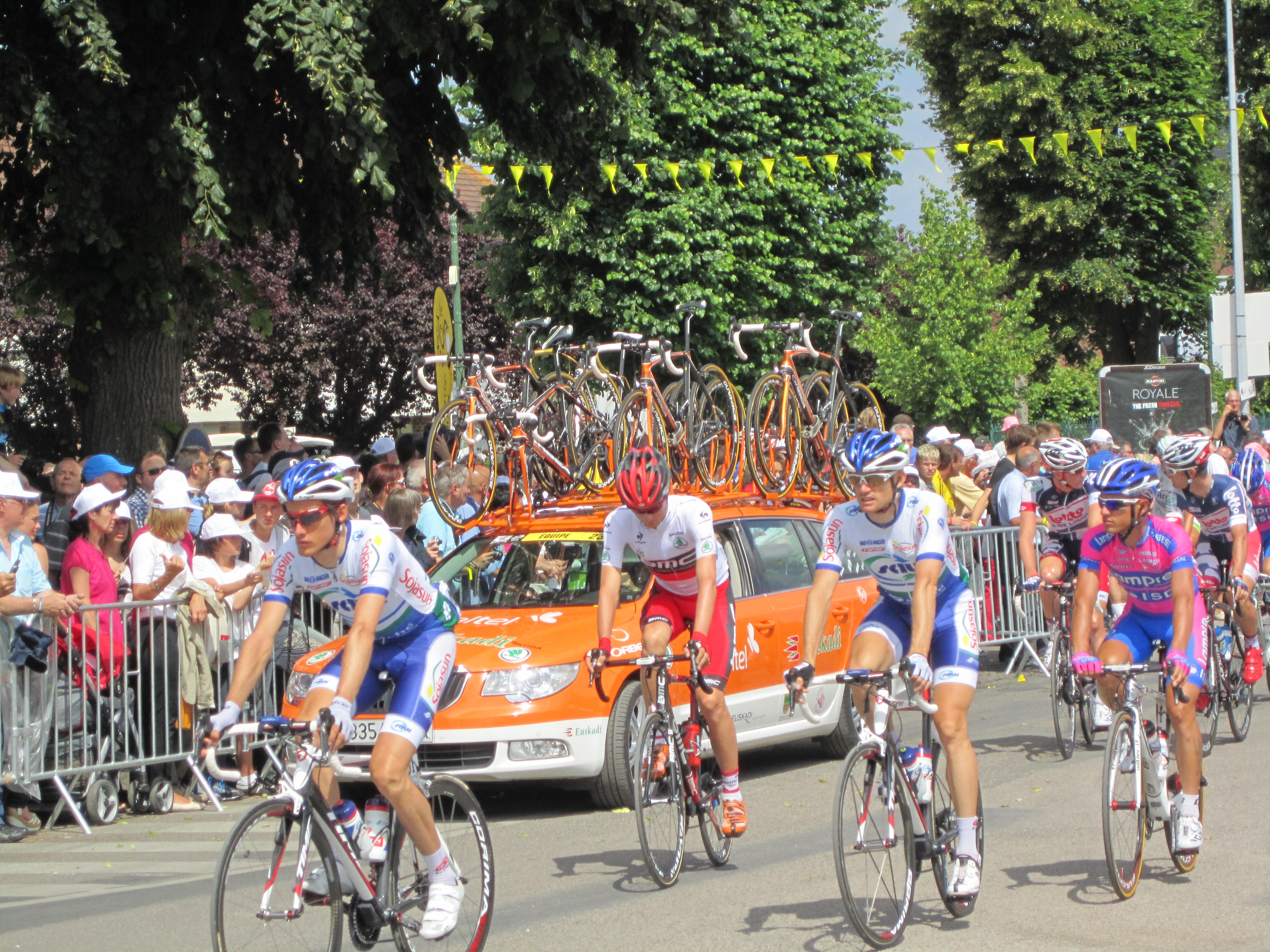 Just before the start (Fourth stage Tour de France 2012), Tejay van Garderen with two cyclists of Saur-Sojasun Team.